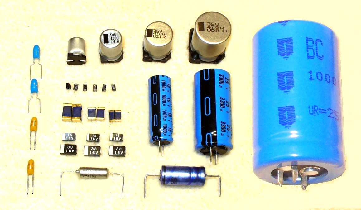 Some different styles of aluminum and tantalum electrolytic capacitors